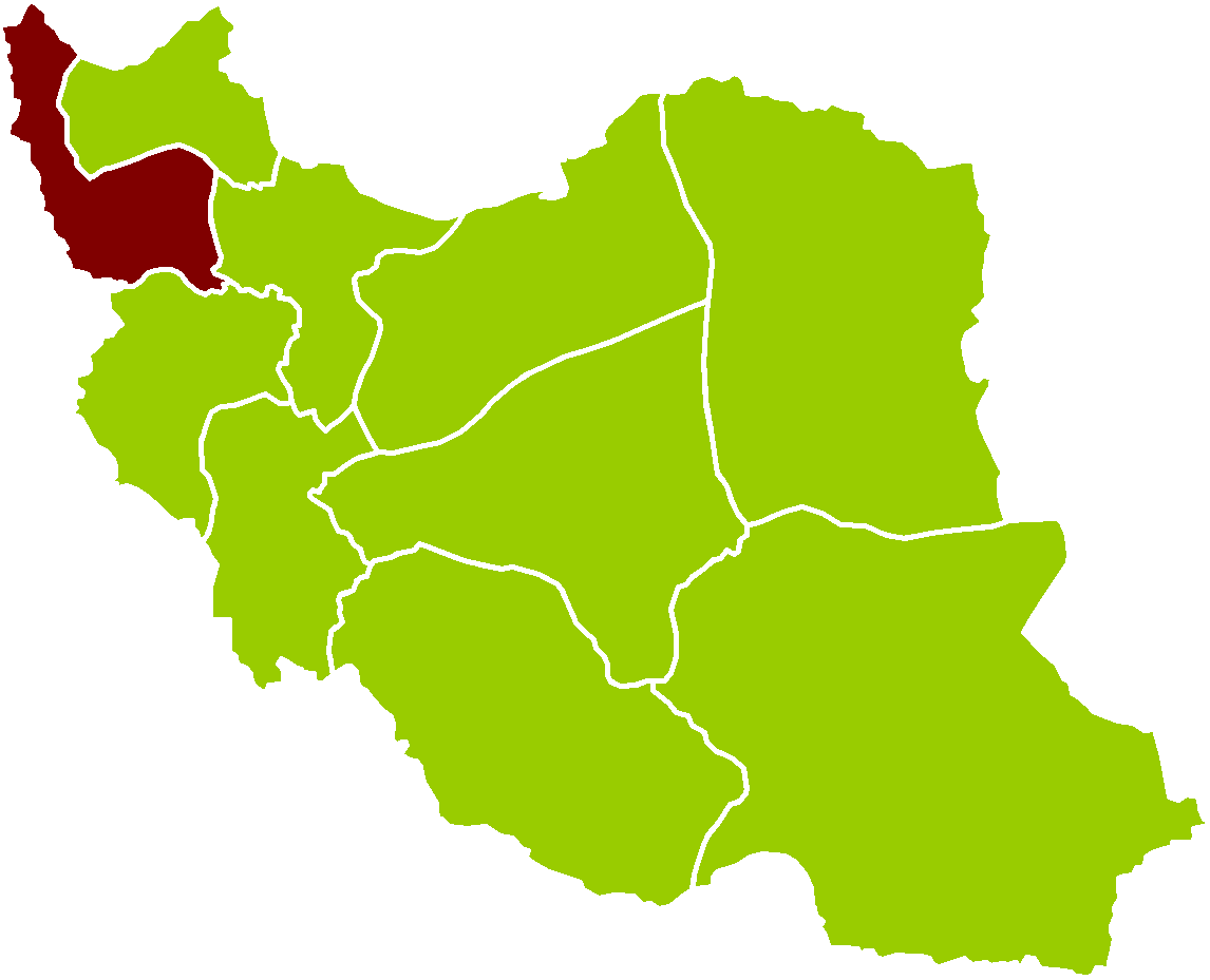 Fourth province of Iran